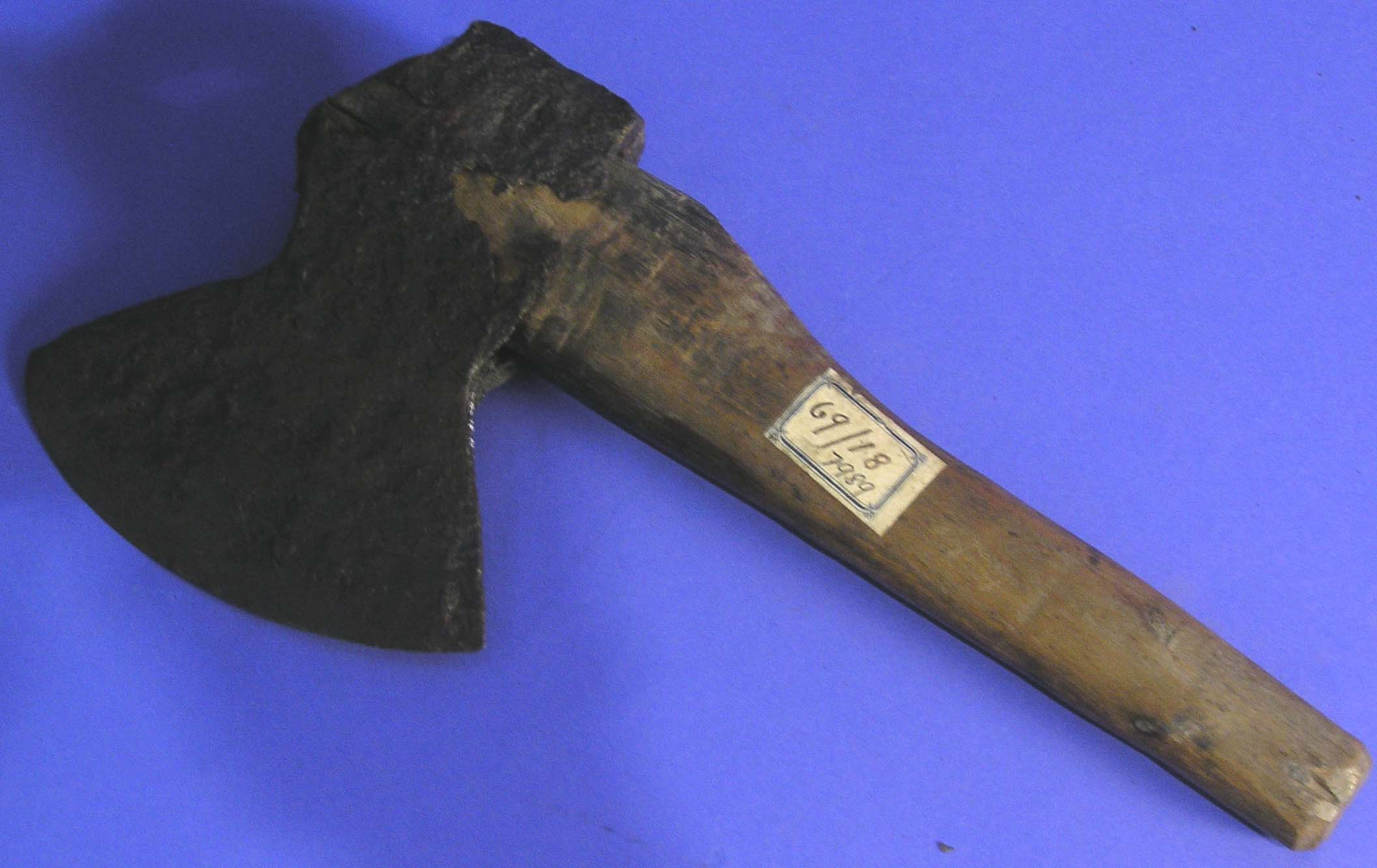 Old trade axe; wood, iron; small hand axe with wooden handle attached to iron head; white circle on blade